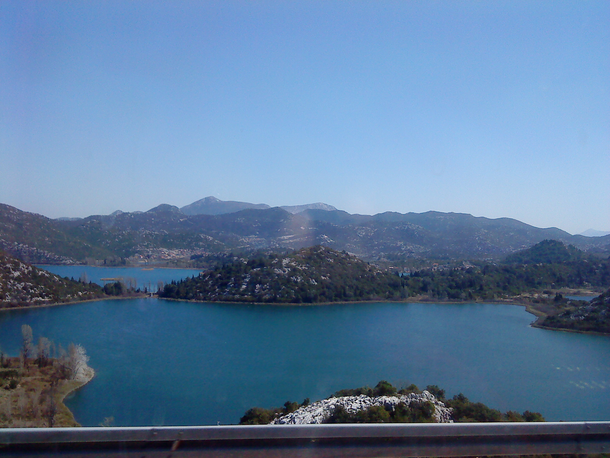 Baćinska jezera